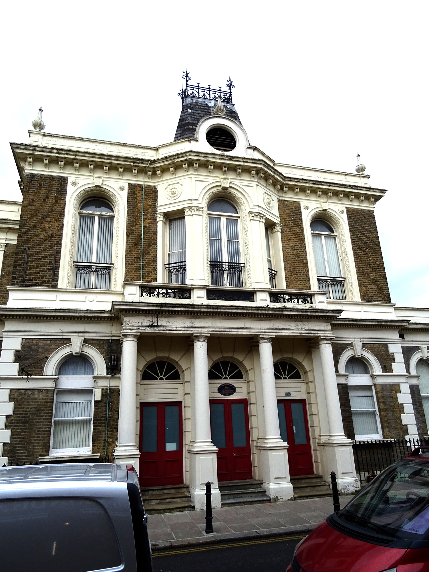 4B Orford Road, London E17 9LN